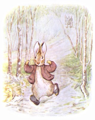 Illustration from children's book The Tale of Benjamin Bunny